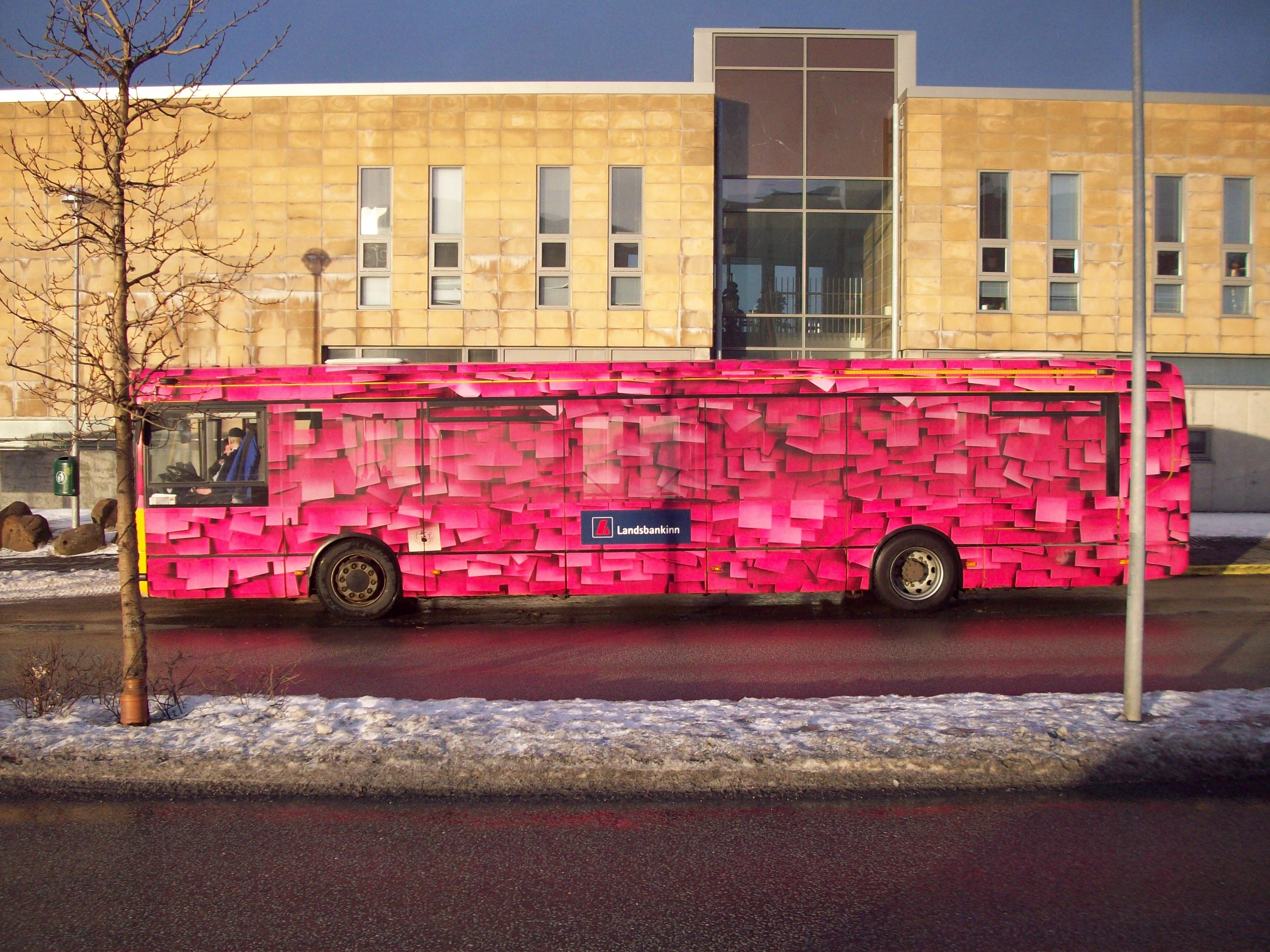 A bus in Kópavogur with an advertisement for Landsbanki